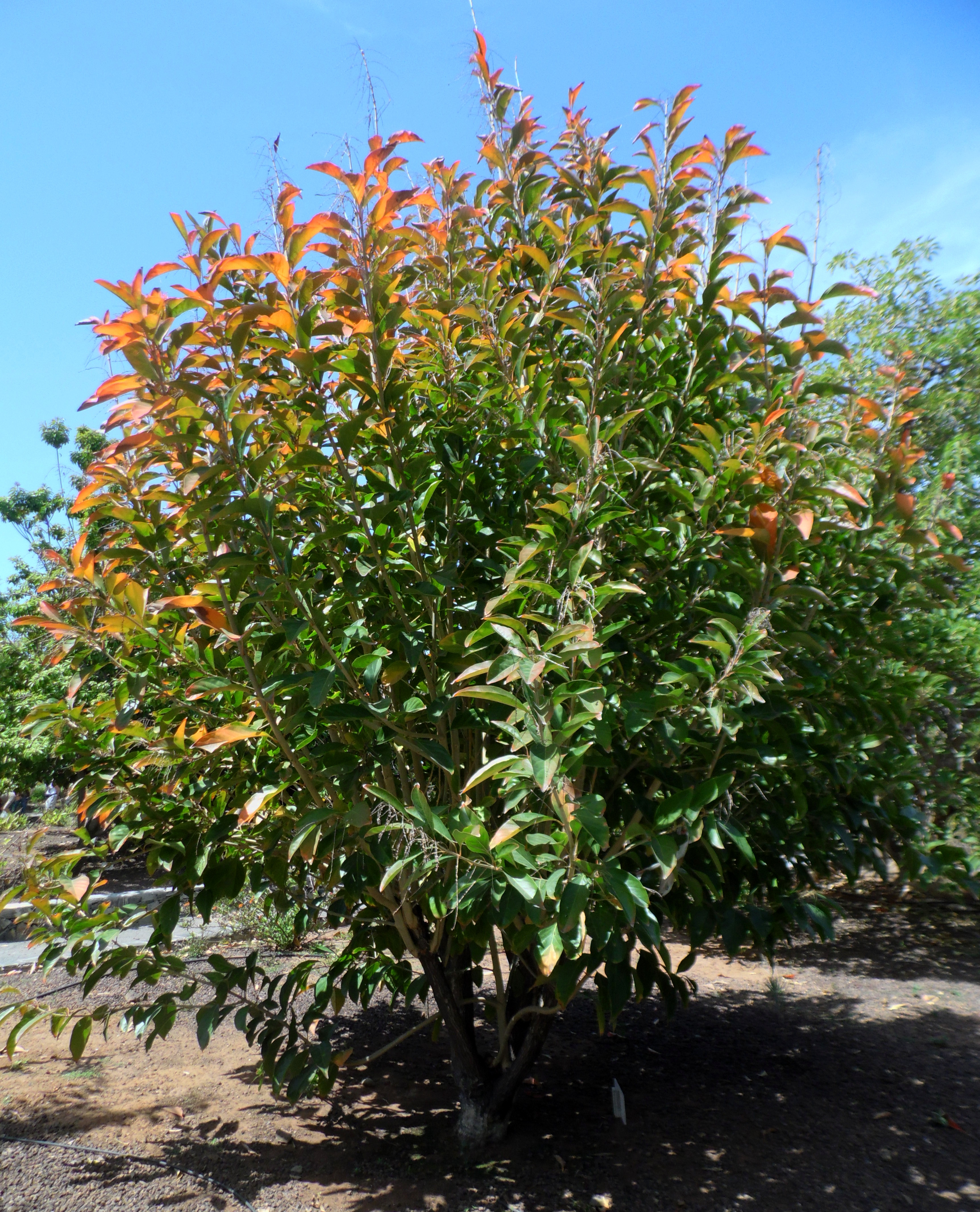 Citharexylum spinosum in Parque Botánico de Maspalomas (Gran Canaria)